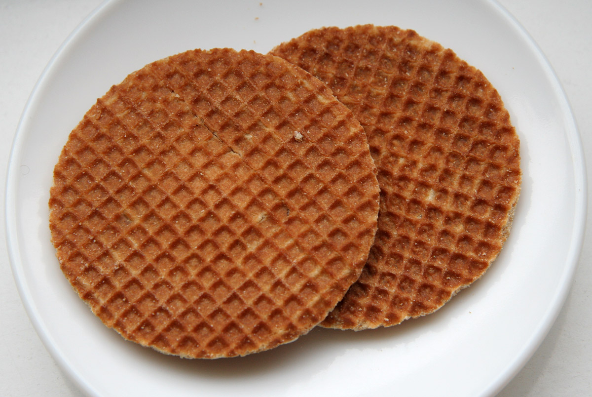 Stroopwafels